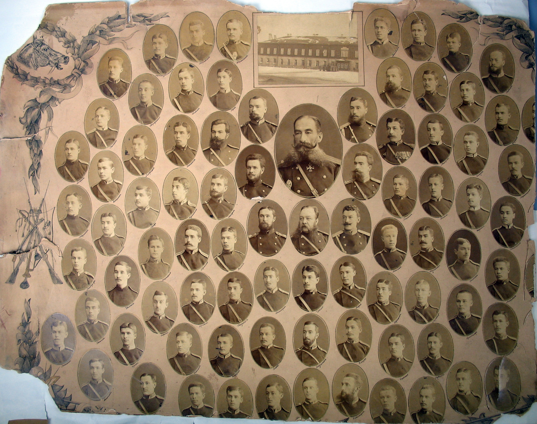 The Tver cavalry school.